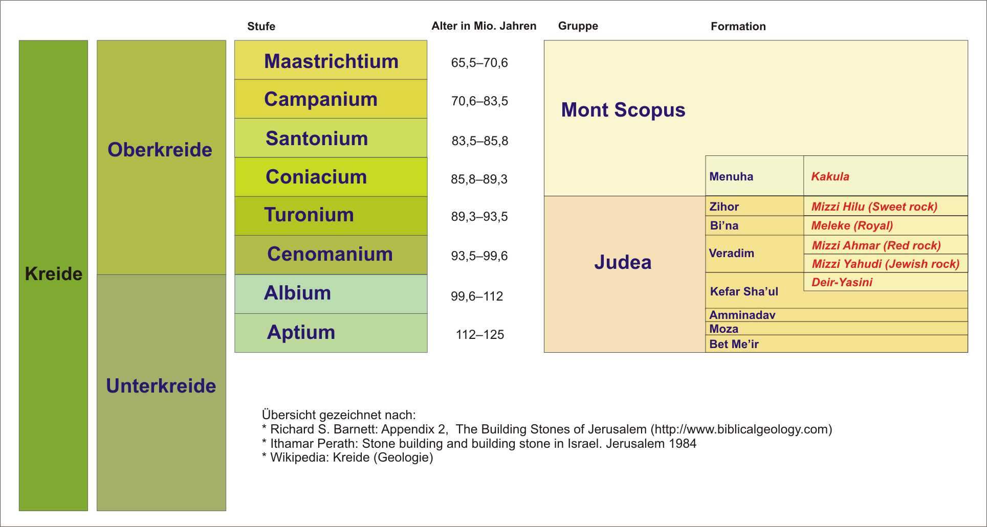 stratigraphy of Meleke and other limestones